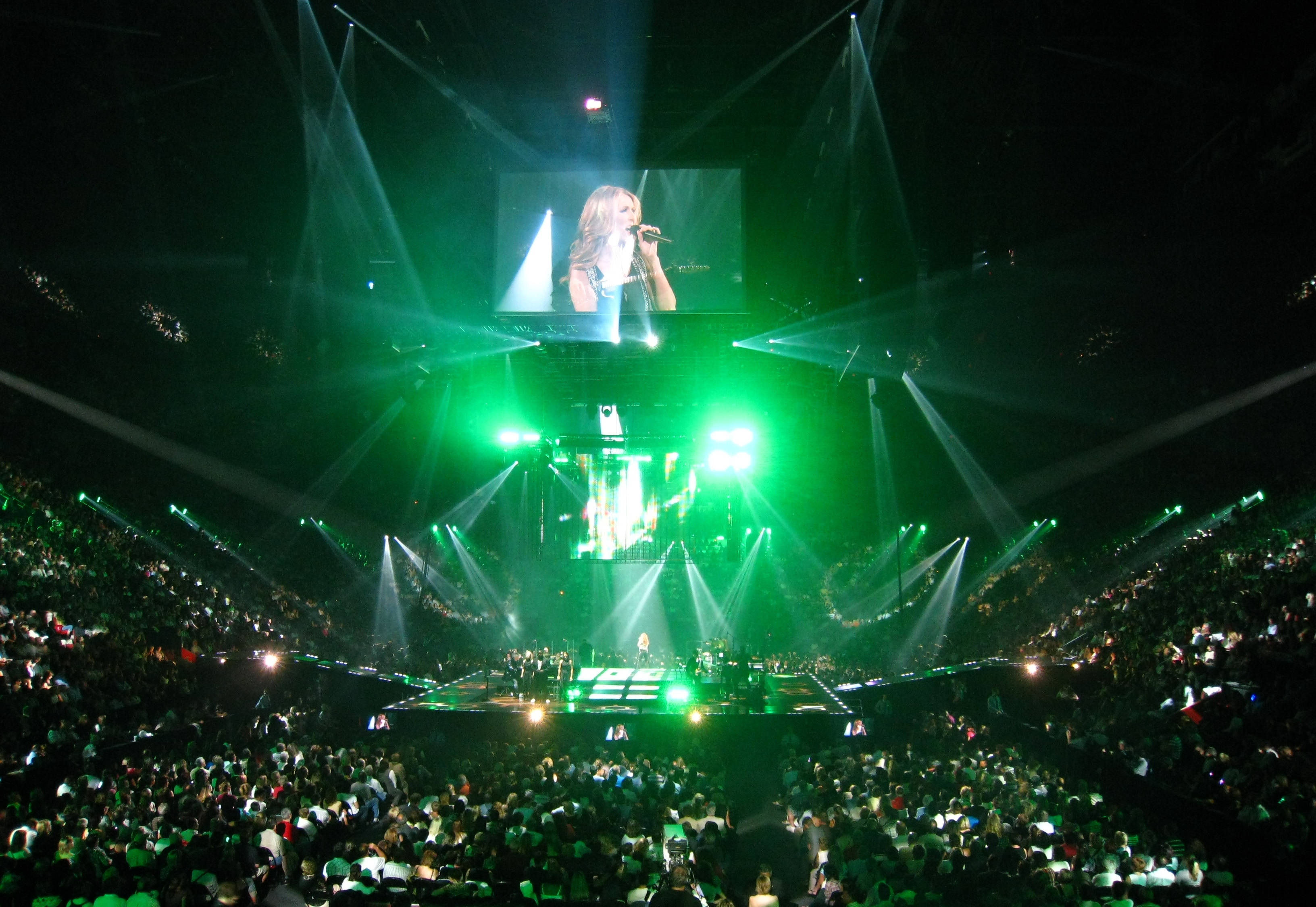 Celine Dion performing "Je sais pas" at Celine Dion 'Taking Chances Tour' Concert @ Bell Centre, Montreal, Canada in August, 2008.